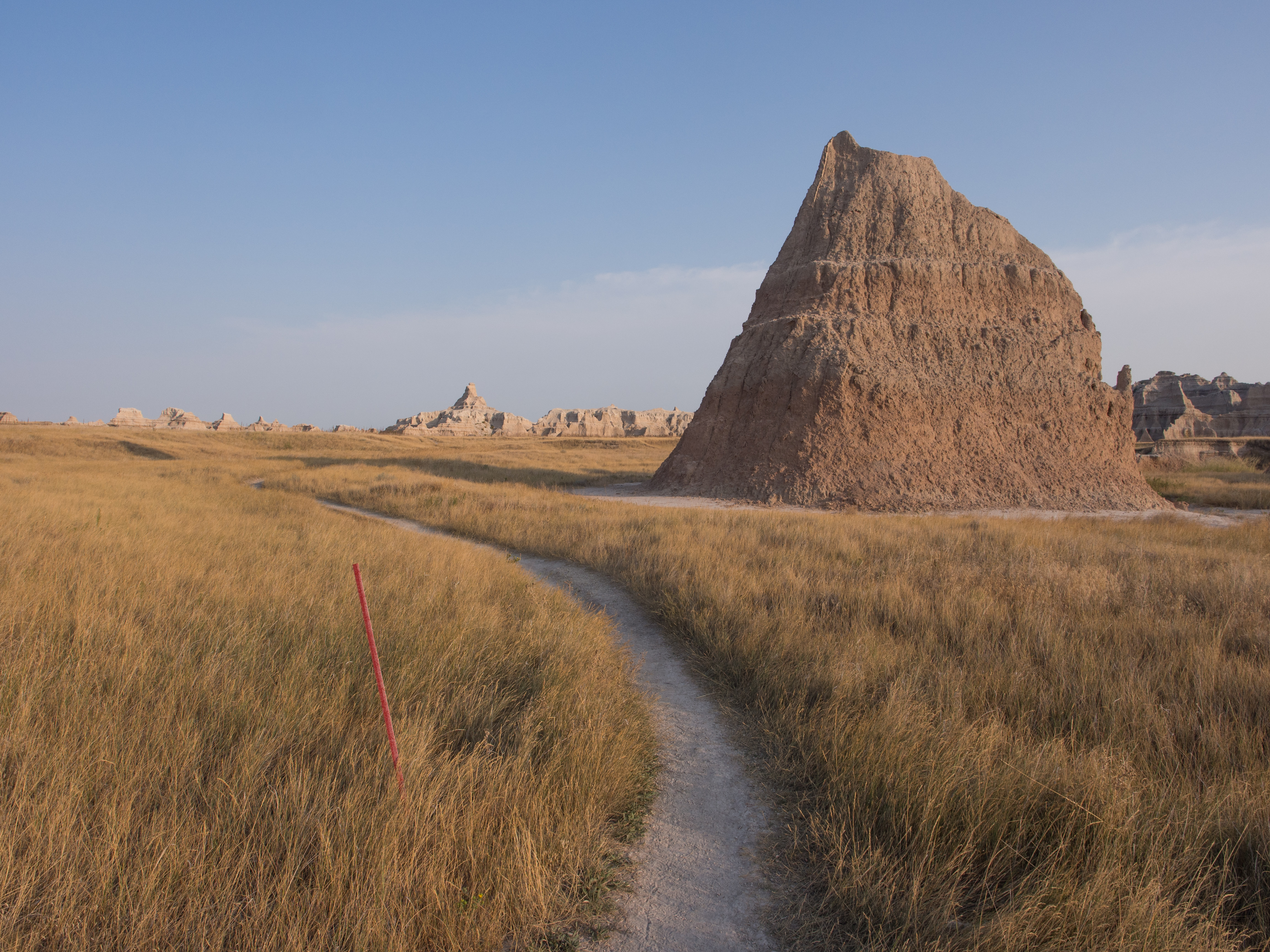 The red posts are the trail indicators